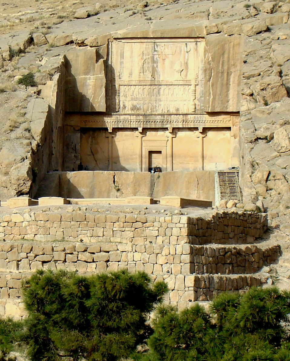 Artaxerses III tomb in Persepolis